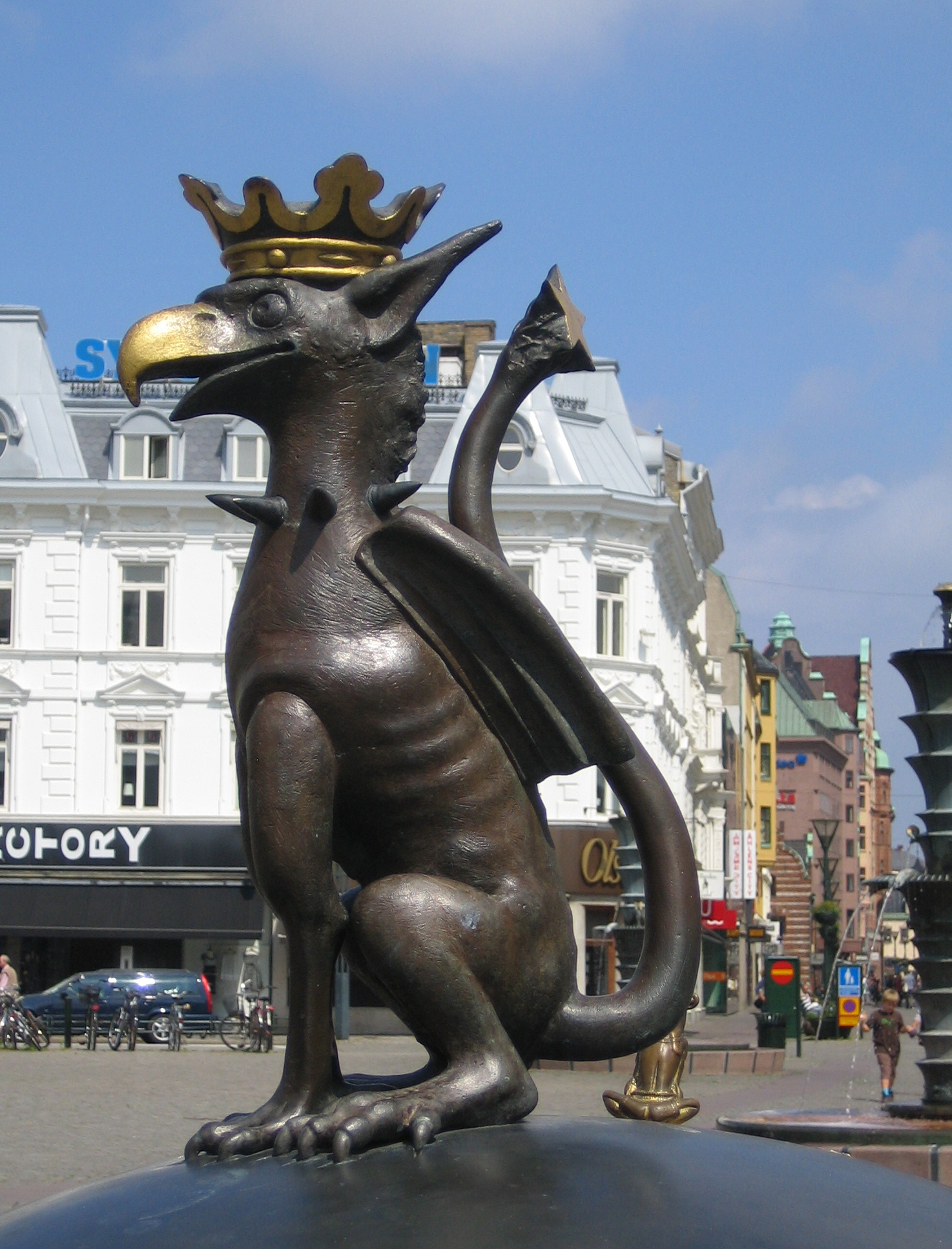 Small sculpture of a griffin, the heraldic animal of Malmö, at Gustav Adolfs torg